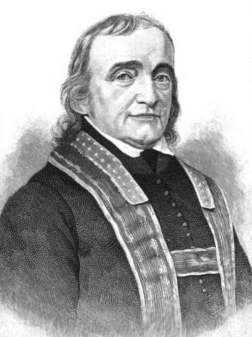 19th-century engraving of American Catholic priest William Matthews